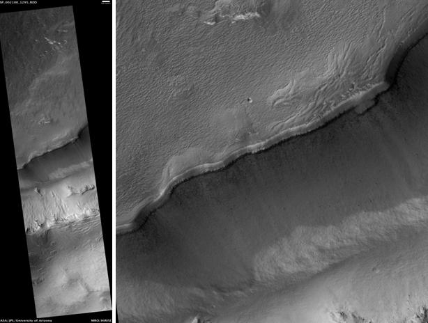 Maunder Crater, as seen by hirise. Scale bar is 500 meters long. Location is 50 south and 2.2 east. Image was taken by the Mars Reconnaissance Orbiter's HiRISE. The HiRISE camera was built by Ball Aerospace and Technology Corporation and is operated by the University of Arizona. Image courtesy NASA/JPL/University of Arizona.